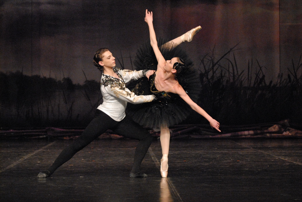 "Swan Lake", ballet composed by Pyotr Ilyich Tchaikovsky, Ballet of SNT, Novi Sad, 2007/08; Andreja Kulešević, Andrej Kolčeriju Srpski (latinica): "Labudovo jezero", balet Petra Iliča Čajkovskog, Balet SNP-a, Novi Sad, 2007/08; Andreja Kulešević, Andrej Kolčeriju Српски (ћирилица): "Лабудово језеро", балет Петра Илича Чајковског, Балет СНП-а, Нови Сад, 2007/08; Андреја Кулешевић, Андреј Колчерију